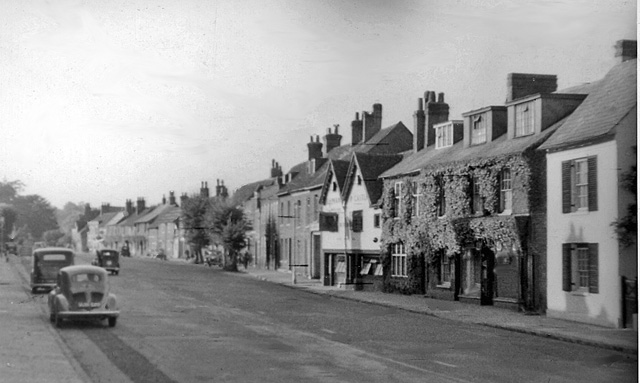 Amersham-on-the Hill, High Street, Near to Amersham, Buckinghamshire, Great Britain. NW view along High Street; Kings Arms Hotel on right.